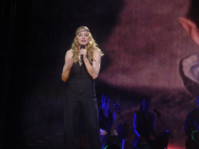 Concert